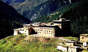 Palpung Thubten Chökhor Ling (Palpung Monastery). Tibetan Buddhist monastery in the Garzê (Ganzi) Tibetan Autonomous Prefecture — of western Sichuan Province in southwestern China. The monastic seat of the Chamgon Kenting Tai Situpas, built in 1727 by the 8th Chamgon Kenting Tai Situpa and located near the border with Tibet Autonomous Region.